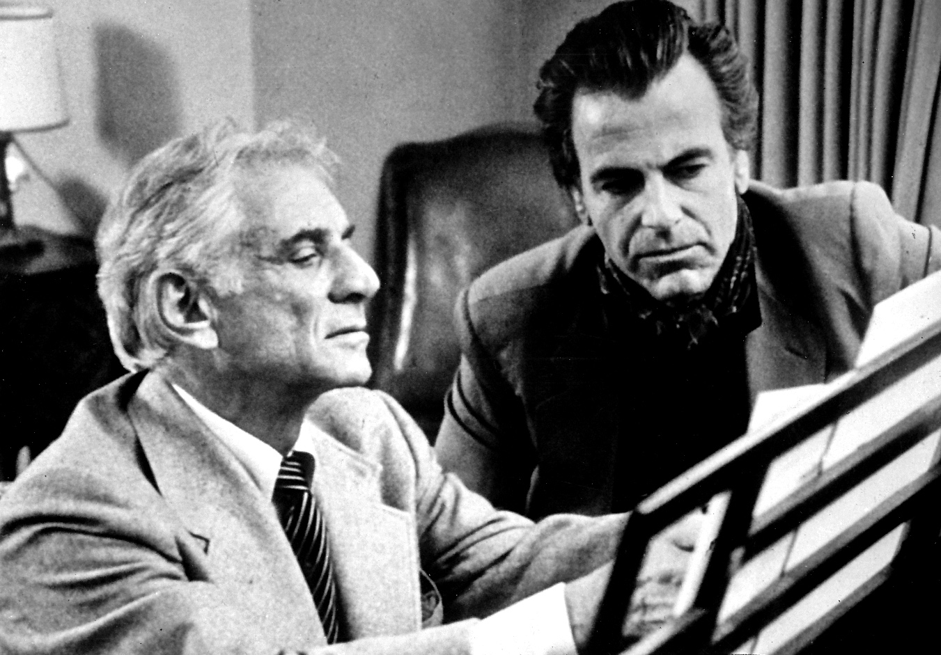 Publicity photo of Leonard Bernstein and Maximilian Schell for TV series, Bernstein/Beethoven.